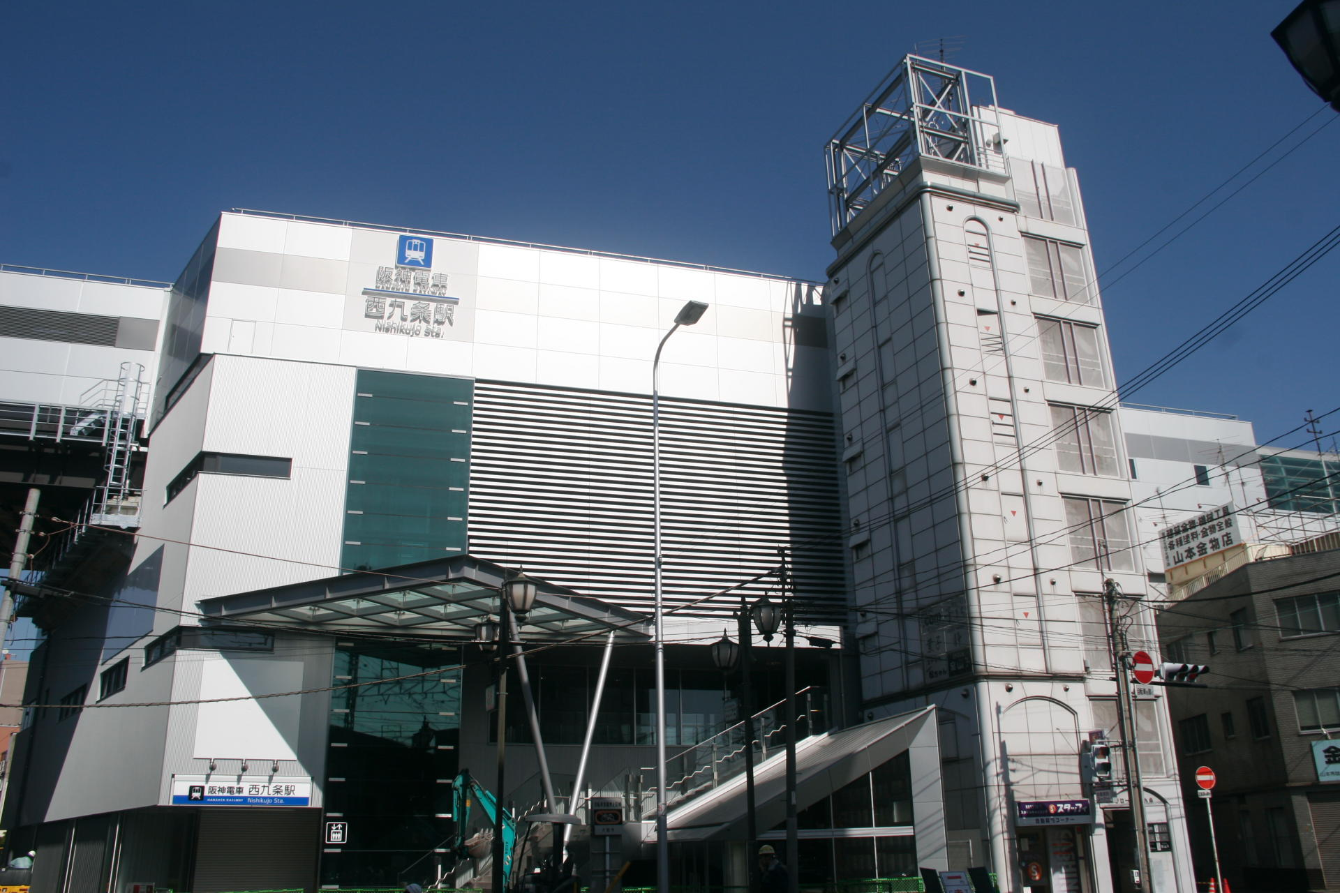 The Hanshin Nishikujo Station east exit（March 15, 2009 photography）